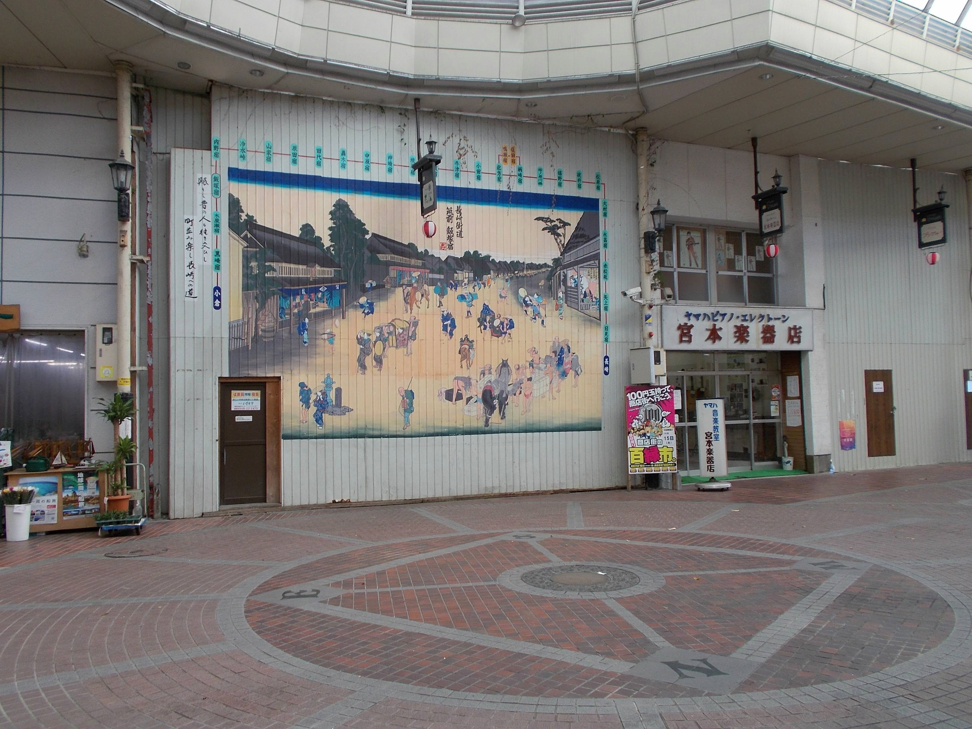 The mural painting street art of Iizuka-shuku in Higashimachi Shopping Arcade, Iizuka, Fukuoka, Japan. Iizuka was prospered in the post station along the Nagasaki Kaido in the Edo period.